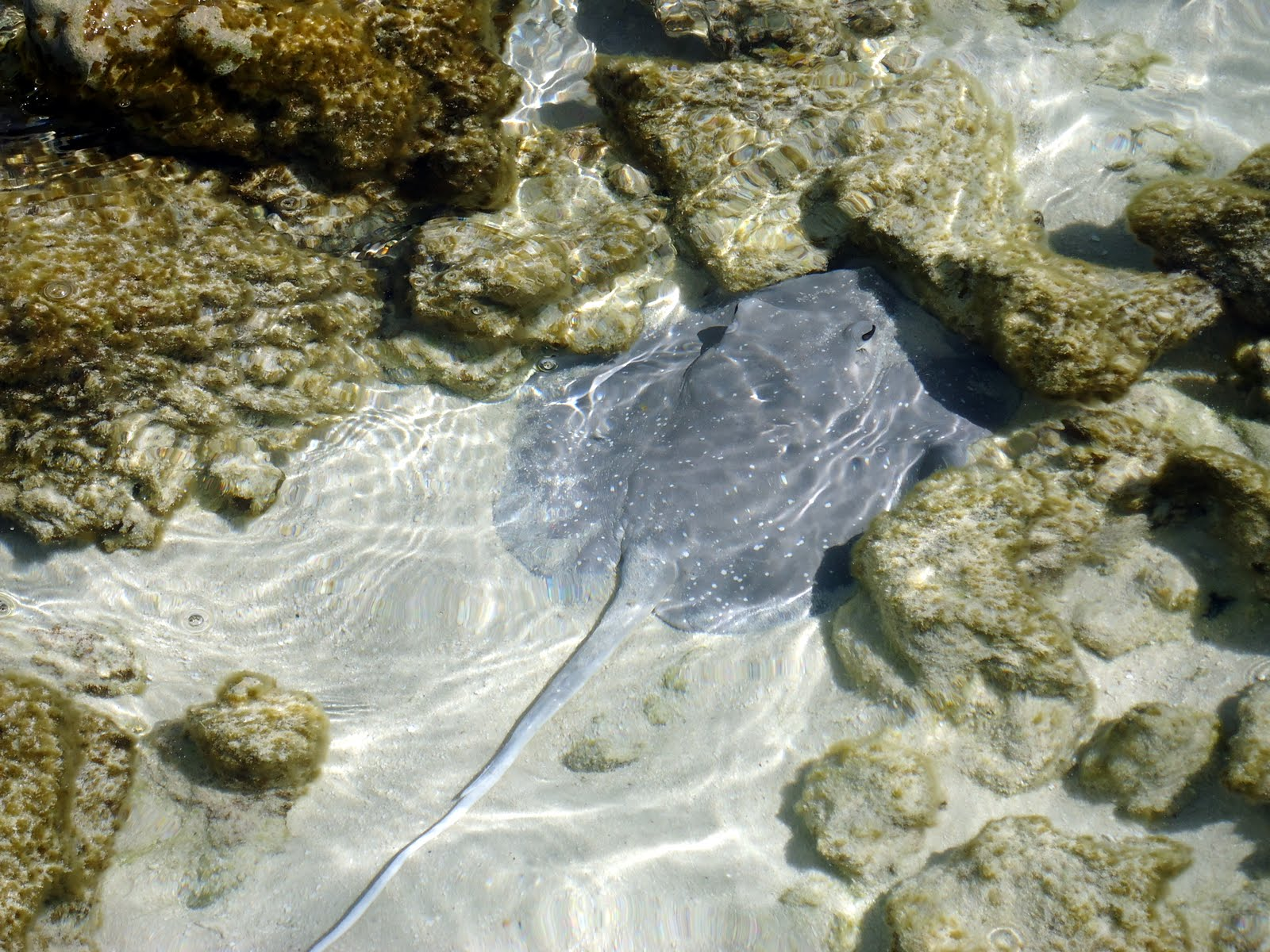 Mangrove whipray (Himantura granulata) at Maale, Maldives